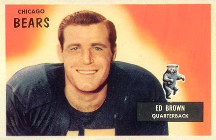 American football player Ed Brown (quarterback) on a 1955 Bowman card.